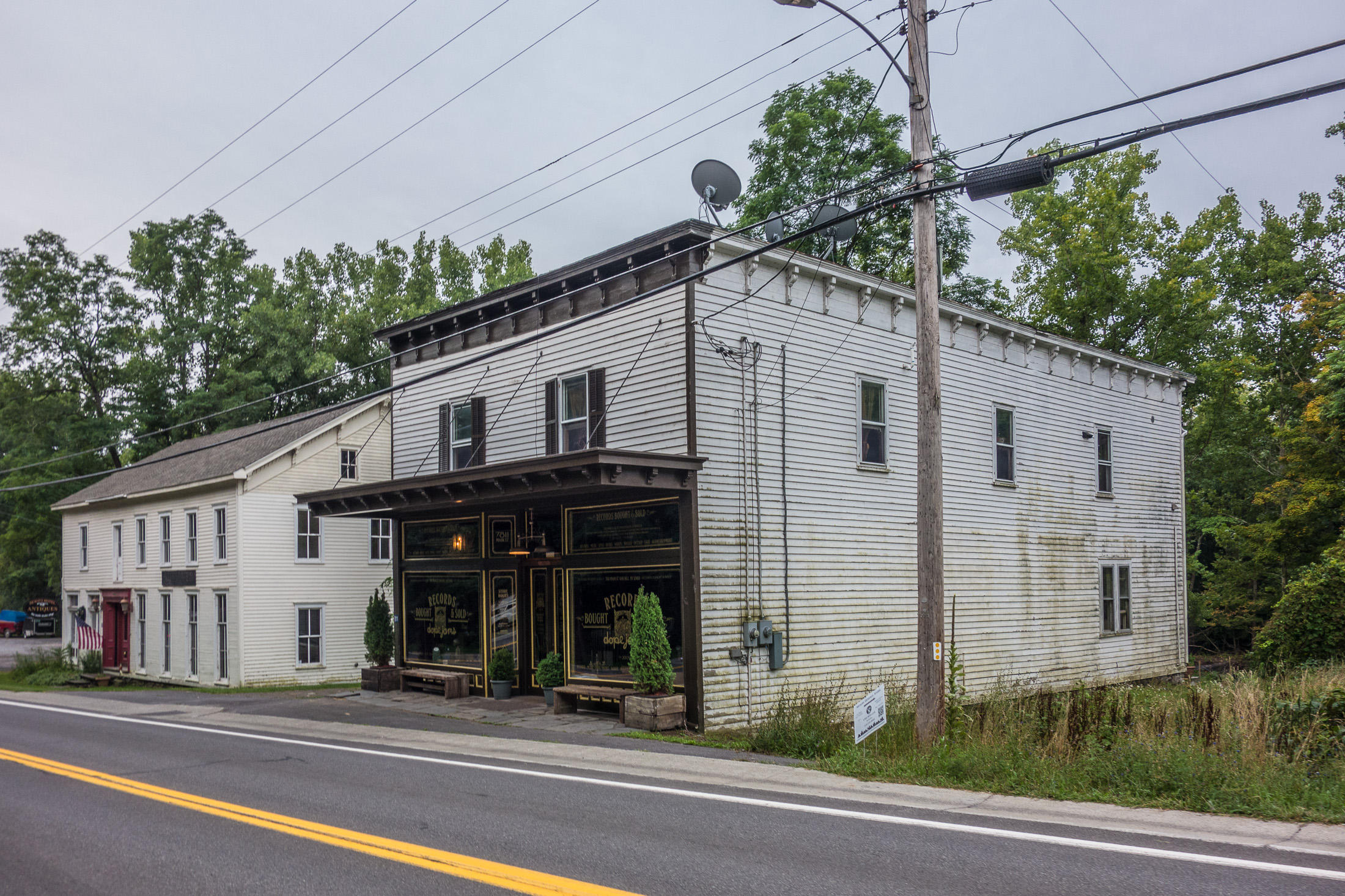 Ford's Store is a historic general store located at Durham in Greene County, New York. It was built in 1870 and is a two story commercial building in the Italianate style. The restored storefront is composed of a recessed entry flanked by display windows.